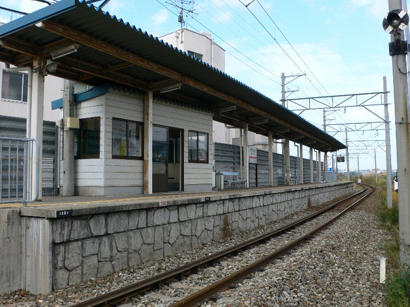 Kagatsume St., Hokuriku Railroad, Ishikawa, Japan.